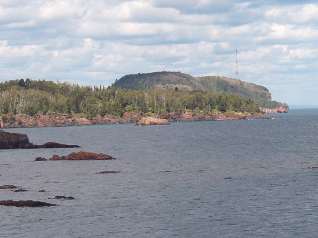 Palisade Head in Minnesota's Tettegouche State Park rises above an intermediate point on the North Shore of LakeSuperior; photo looking NE from shoreline near Silver Bay, Minnesota.